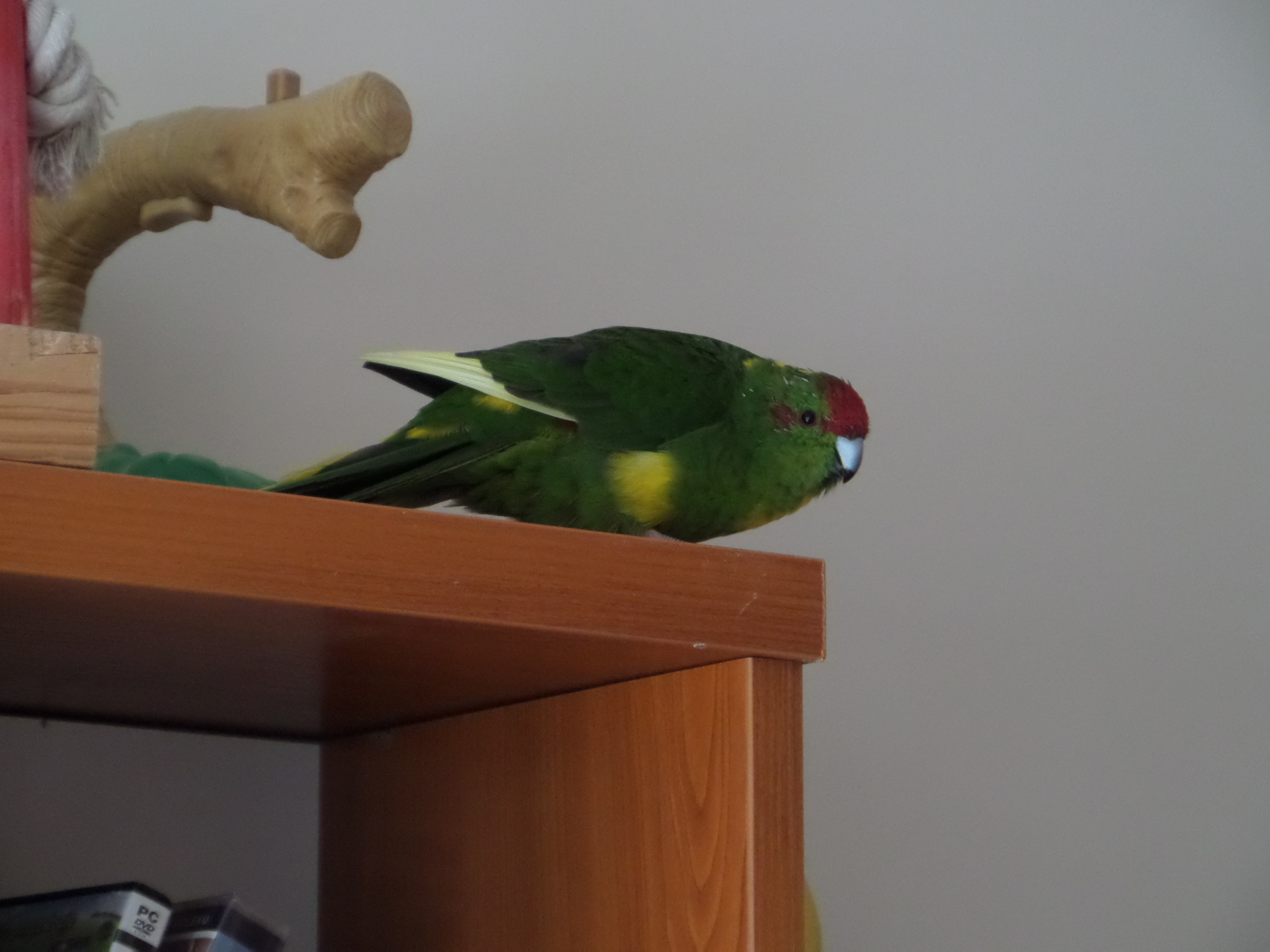 Red fronted Kakariki - pied. Female. Hatched: autumn 2013.